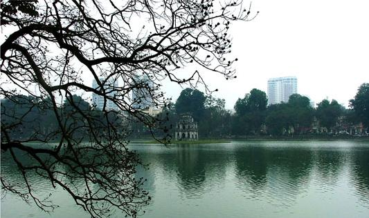 Hoan Kiem Lake